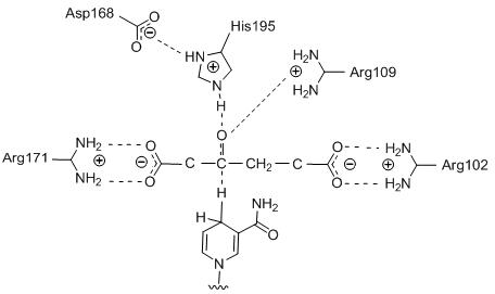 Active site of malate dehydrogenase.